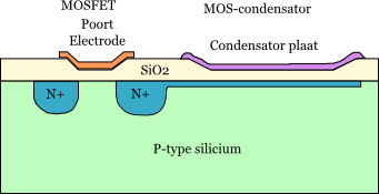 Metal-metal cell with SiO2 dielectricum